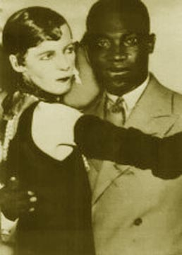 Nancy Cunard and some unidentified man